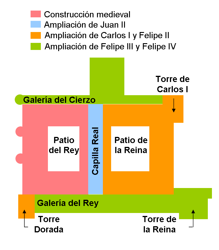 Royal Alcazar of Madrid. Historical evolution